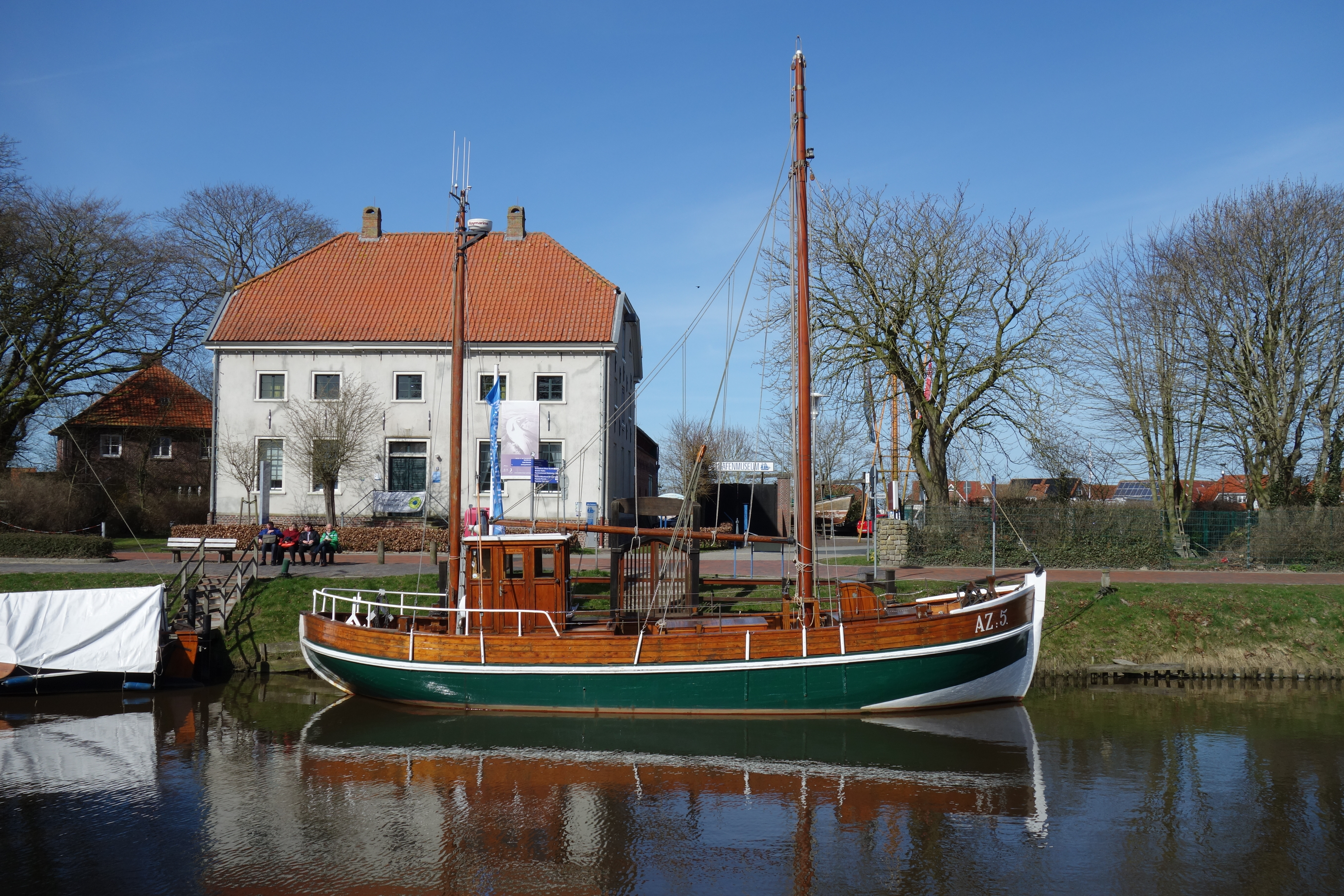 Museum ship Gebrüder in the habour of Carolinensiel in East Frisia